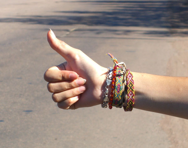 Hitch-hiker's gesture